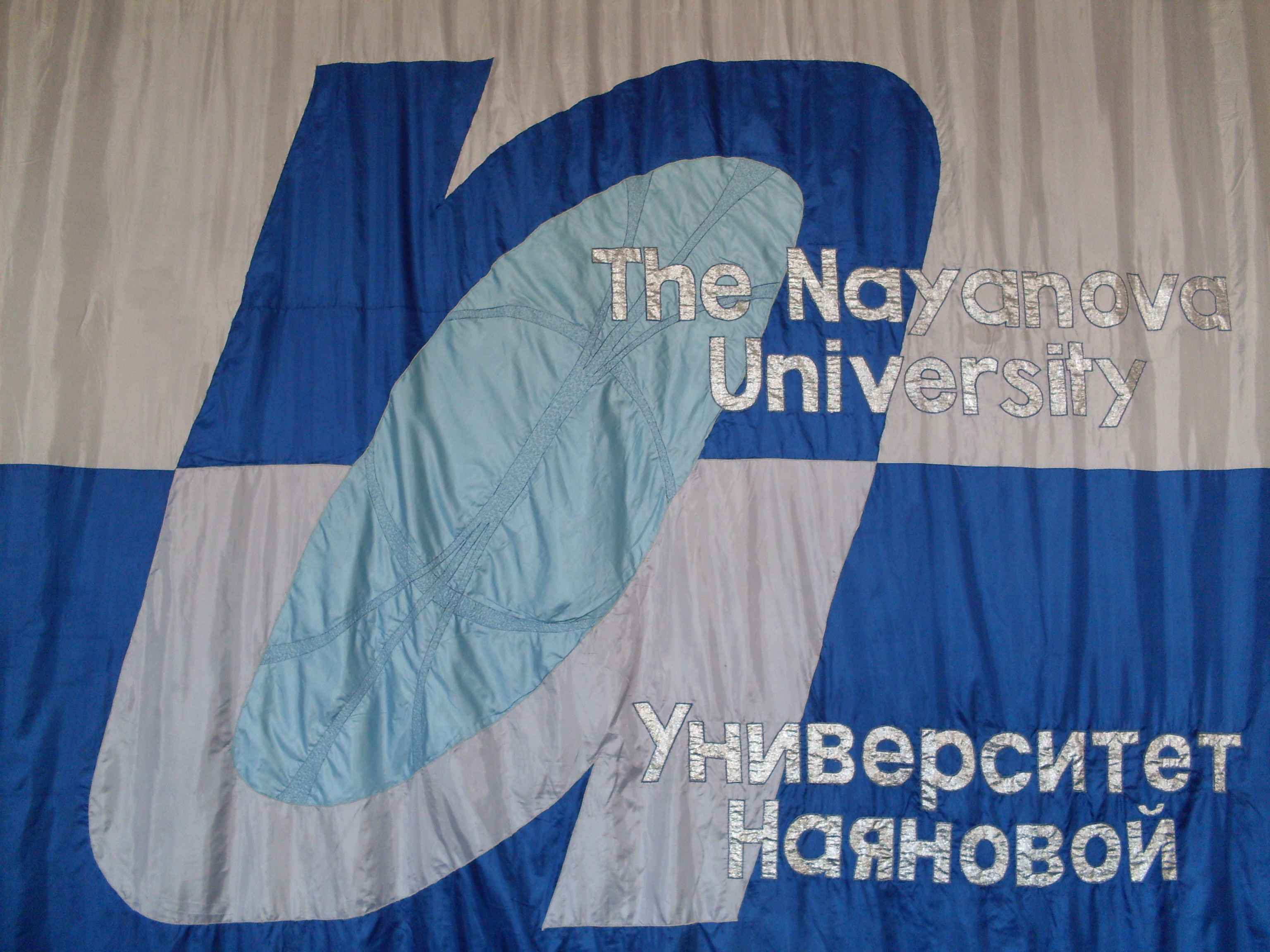 Samara municipal Nayanova unversity's emblem